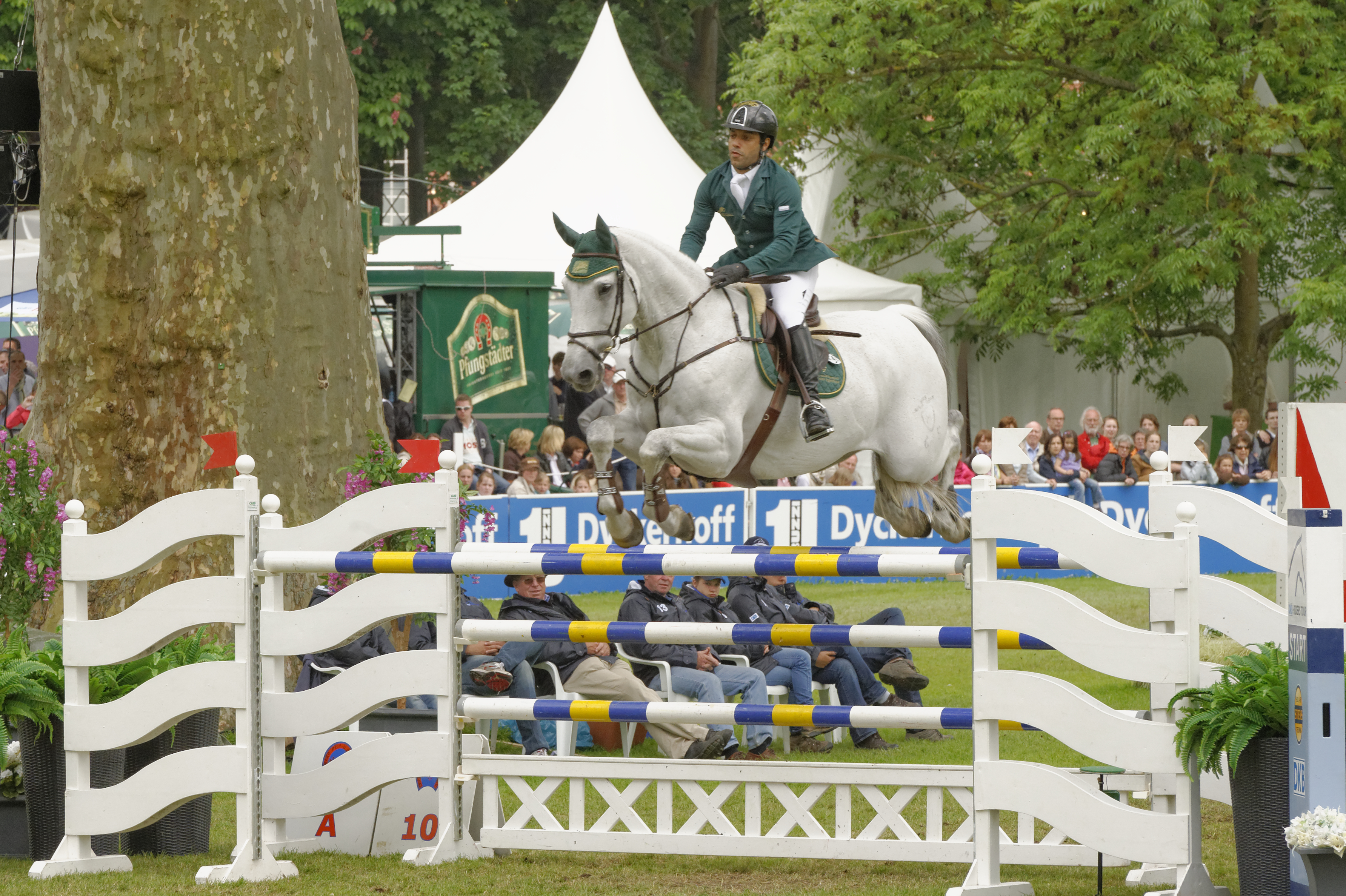 Internationales Pfingstturnier Wiesbaden 2013 The making of this document was supported by the Community-Budget of Wikimedia Germany.